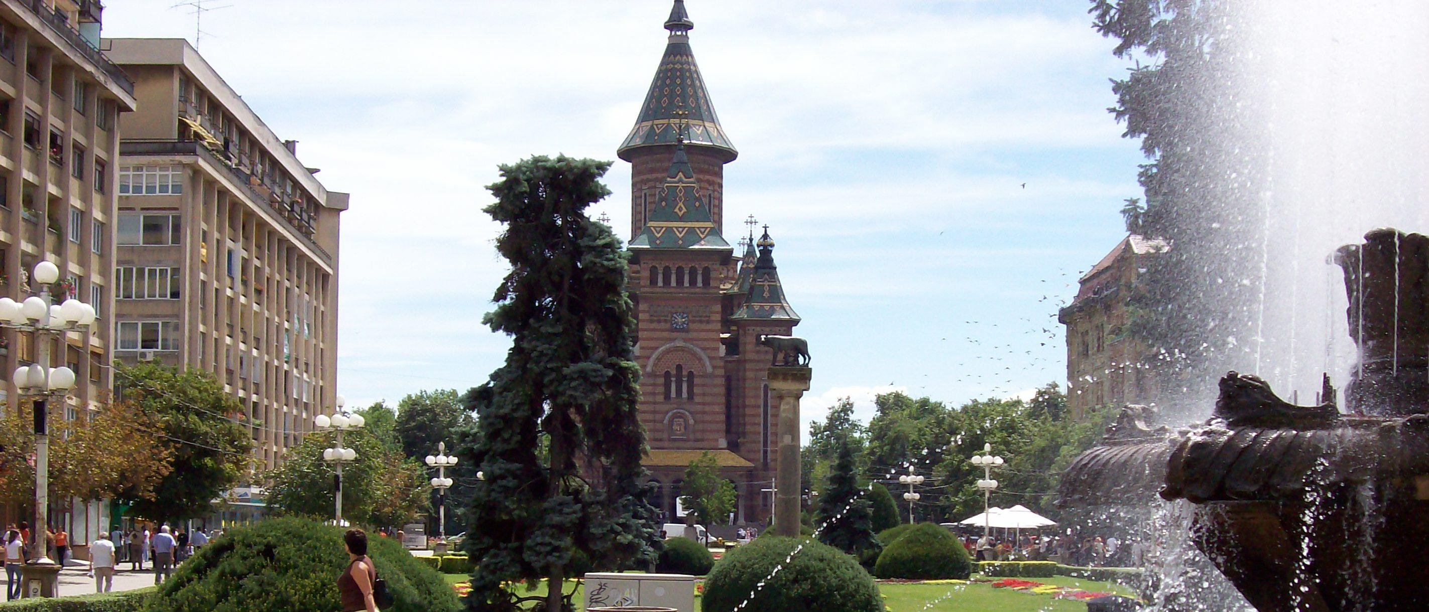 Timisoara in 2006.